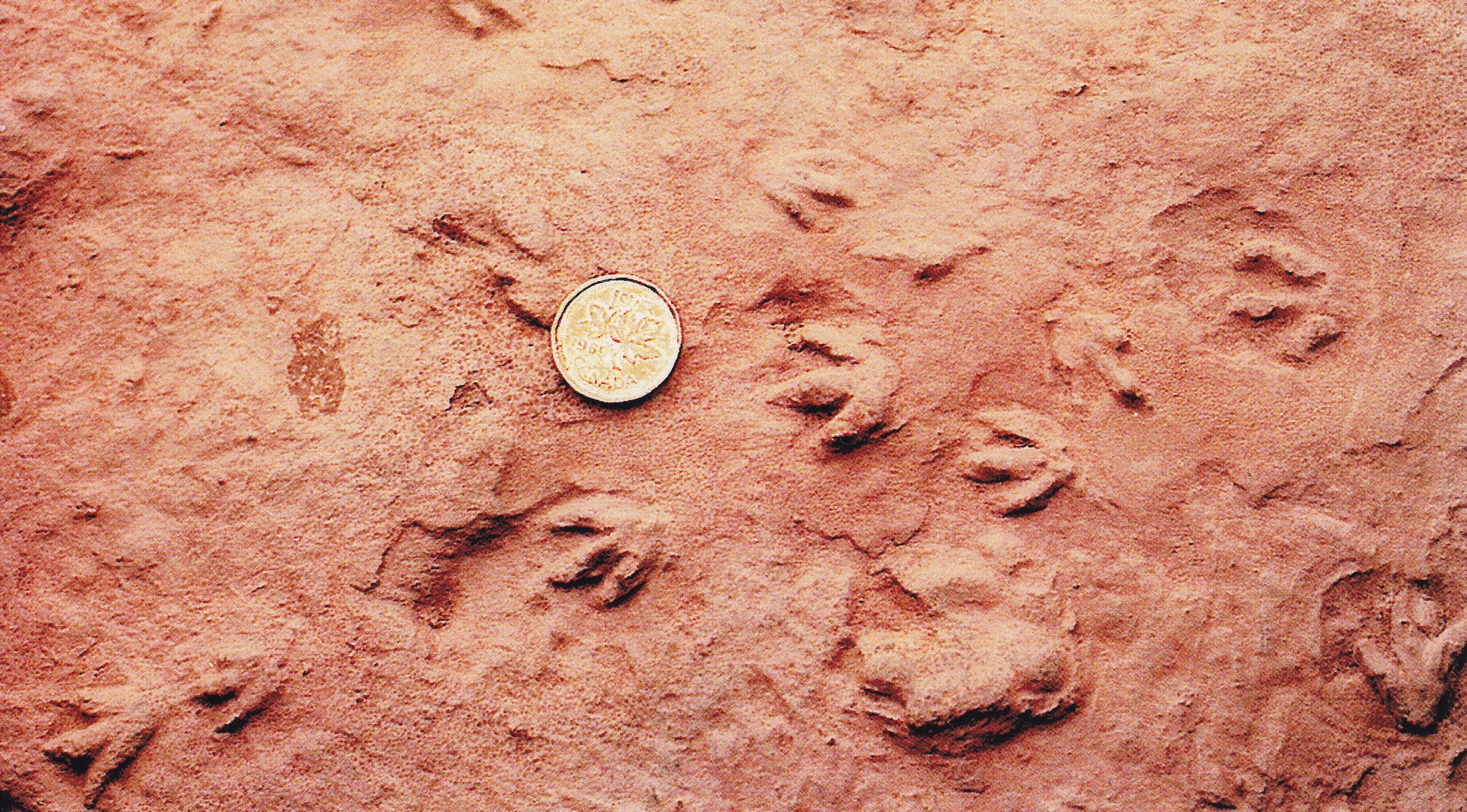 World’s smallest dinosaur tracks found at Wasson Bluff, Nova Scotia, Canada on April 10, 1984 by amateur geologist Eldon George of Parrsboro, Nova Scotia. See coin (1 Canadian cent) for scale. The tracks, which belong to the ichnogenus Grallator, are preserved at the sole of a sandstone bed of the Lower Jurassic (Hettangian to Pliensbachian) McCoy Brook Formation of the Fundy Group, Newark Supergroup. The trackmakers probably were hatchlings of theropod dinosaurs.